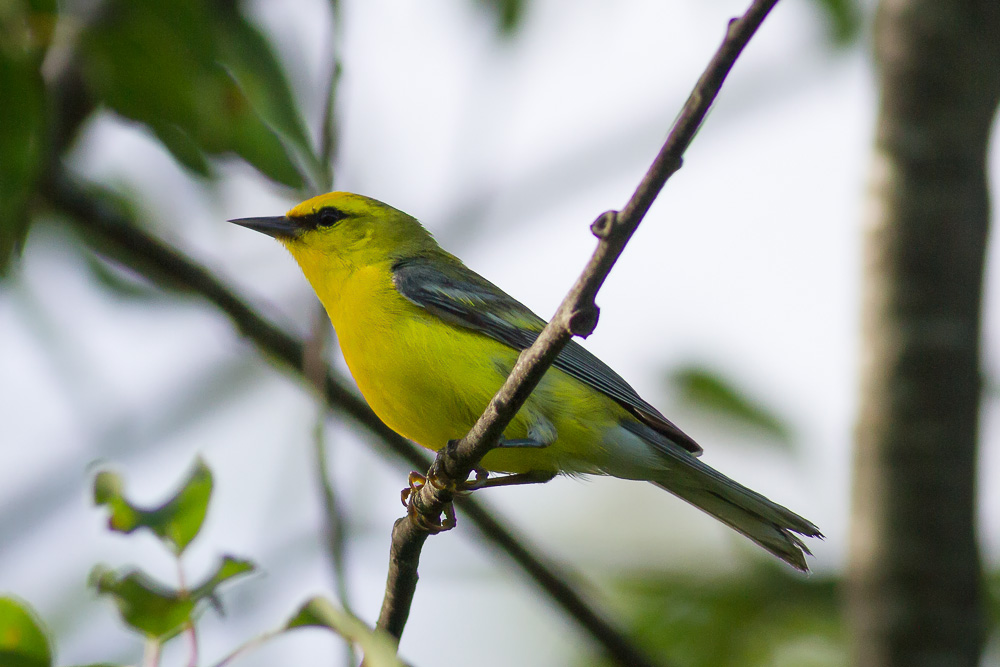 An adult male Blue-winged Warbler in North Berwick, Maine, USA.